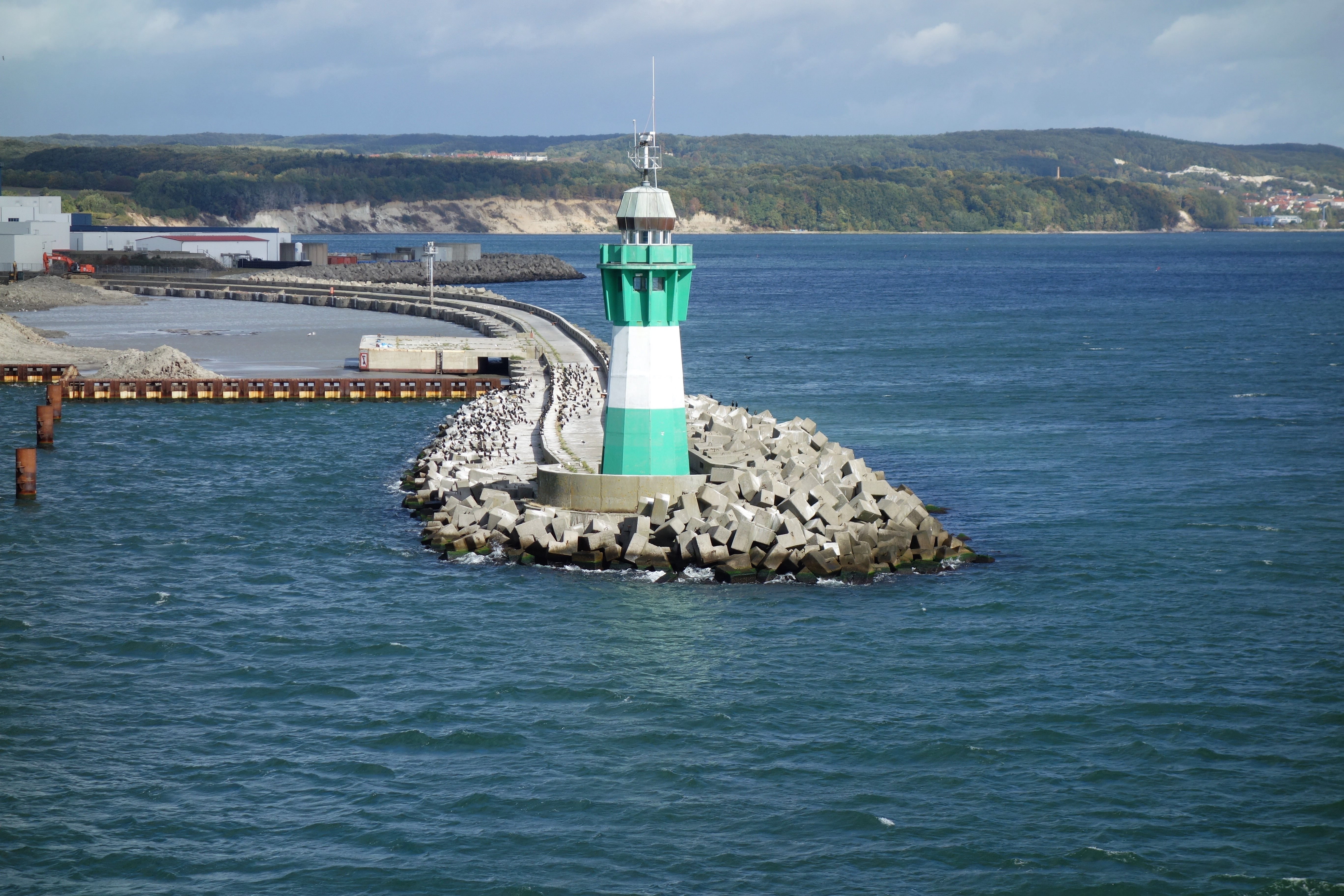 Mukran harbour entry light